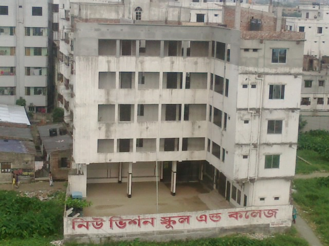 This is a photo of a schoo and taken by me and I moved it from english wikipedia to commons for using in any language's wiki page.